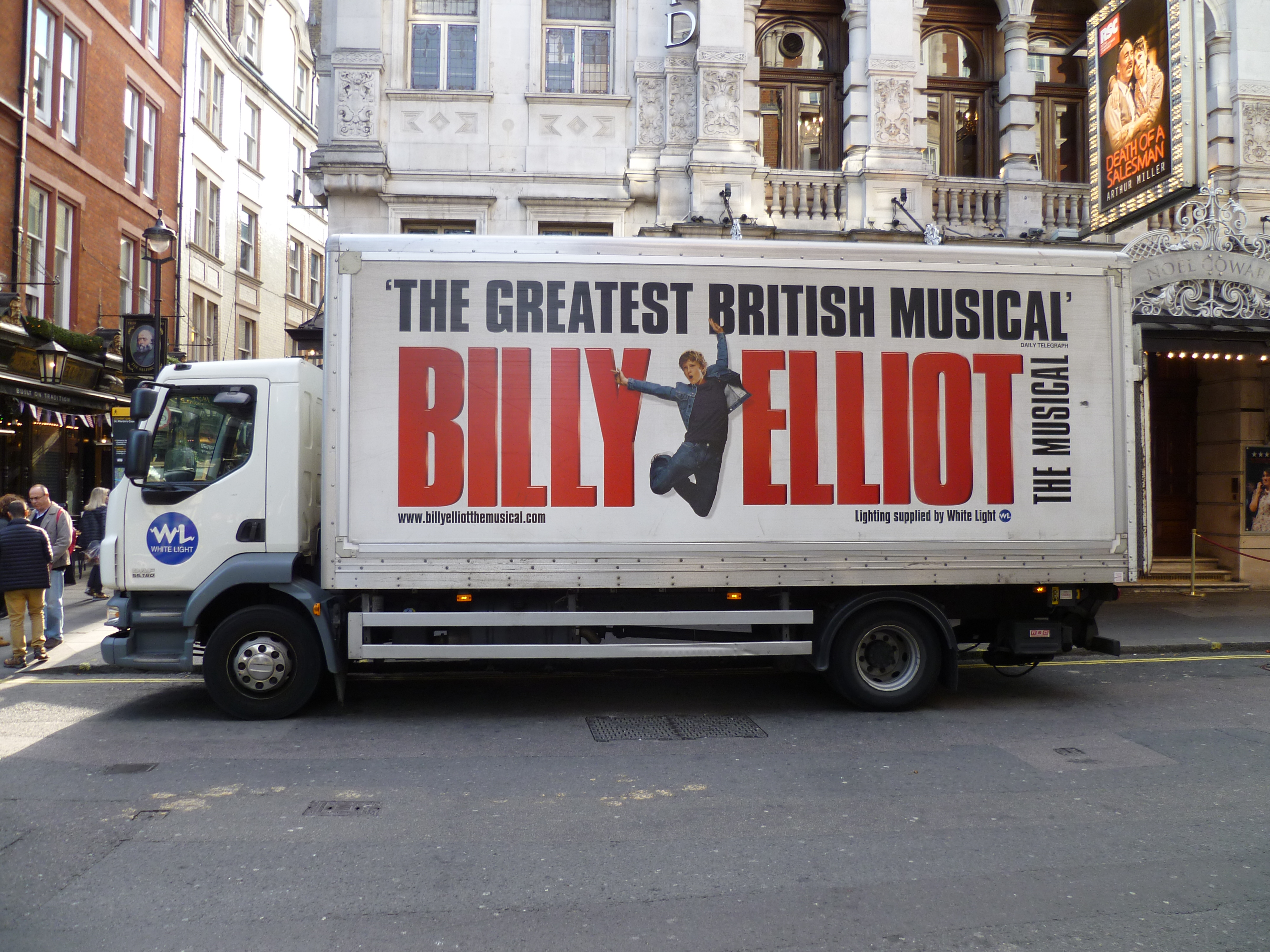 London